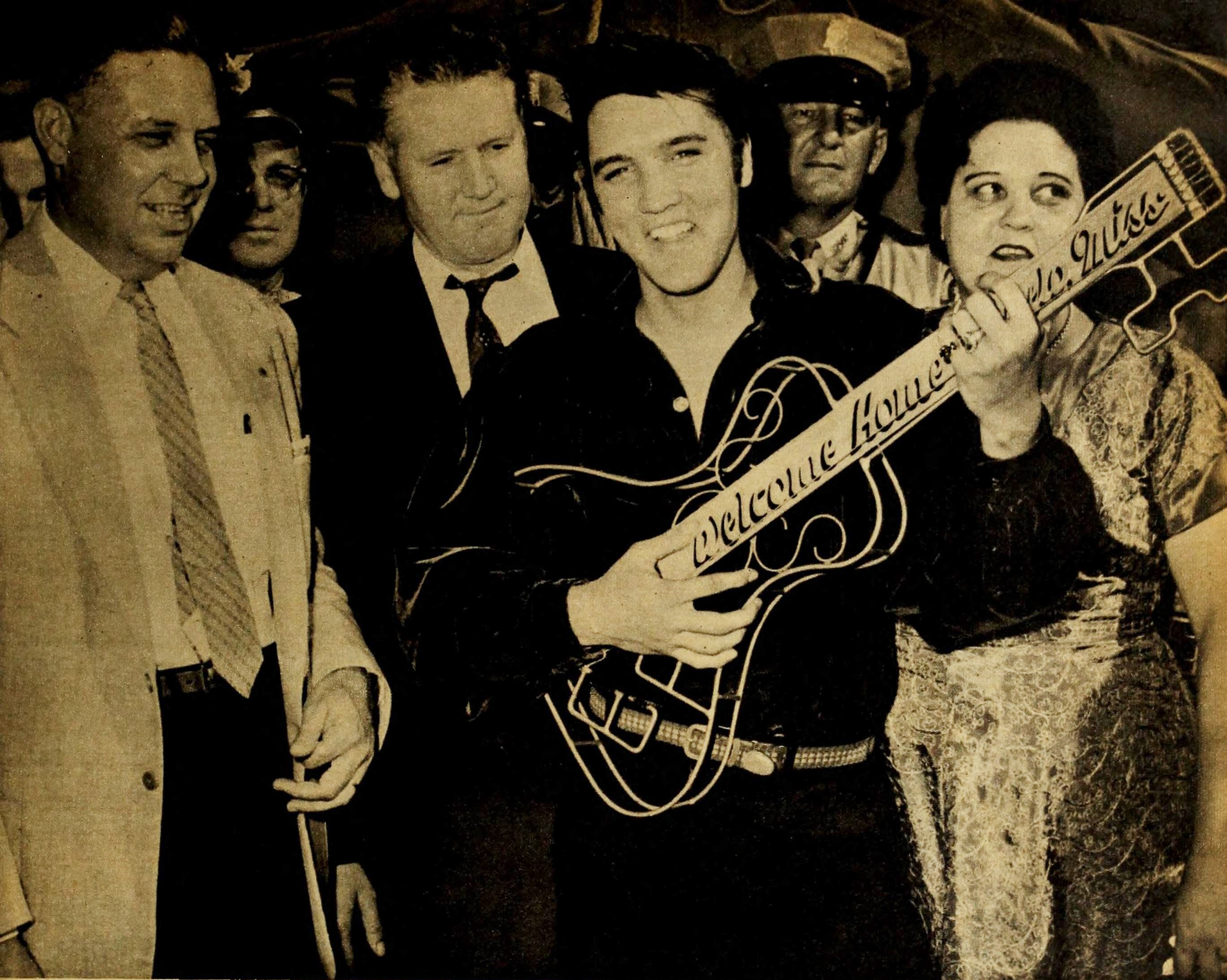 Elvis was given a guitar-shaped key to the city by Mayor James L. Ballard when he returned to Tupelo, Mississippi.